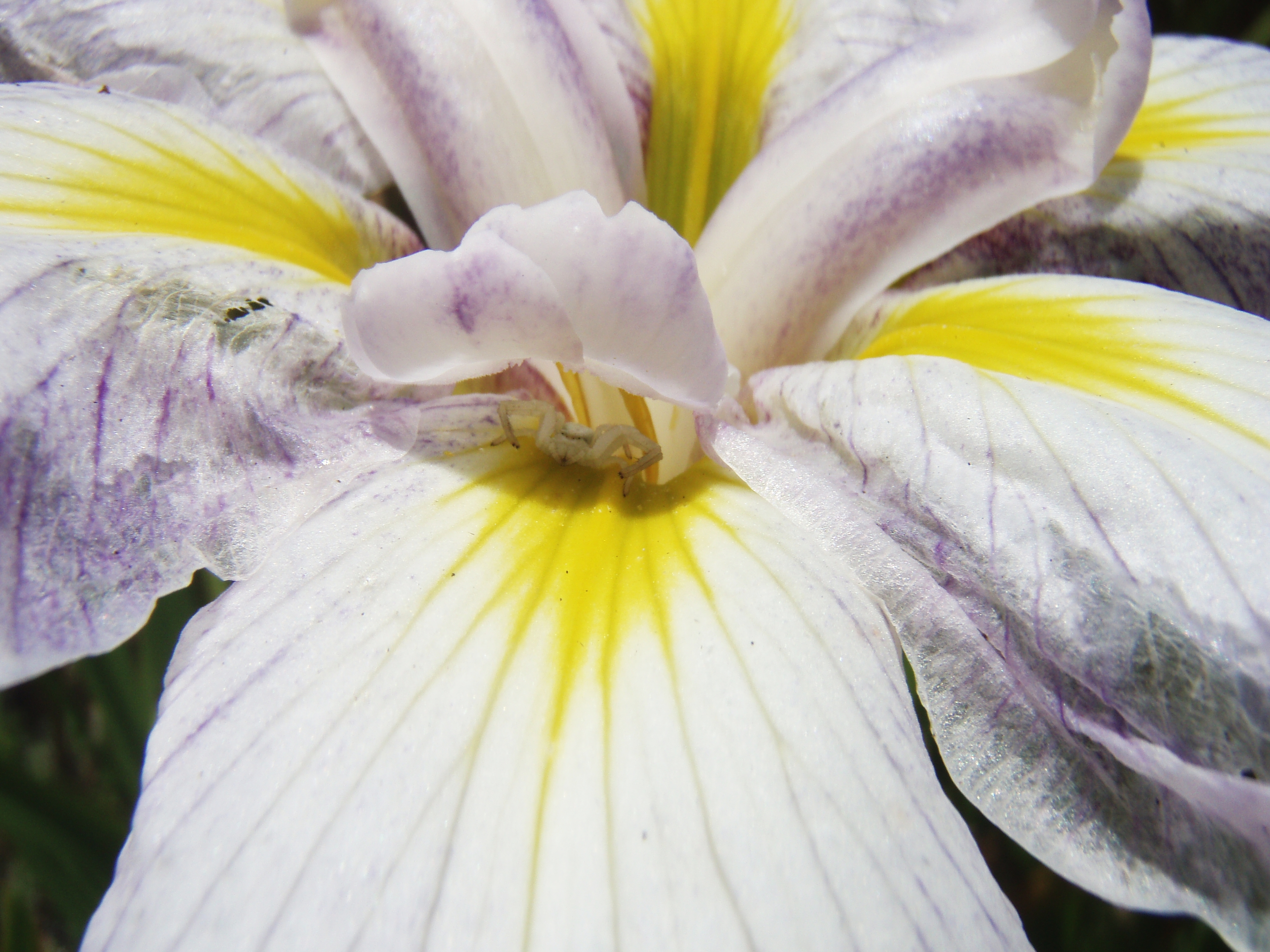 White Crab Spider (Thomisus spectabilis) is hiding inside Japanese Iris Iris sanguinea